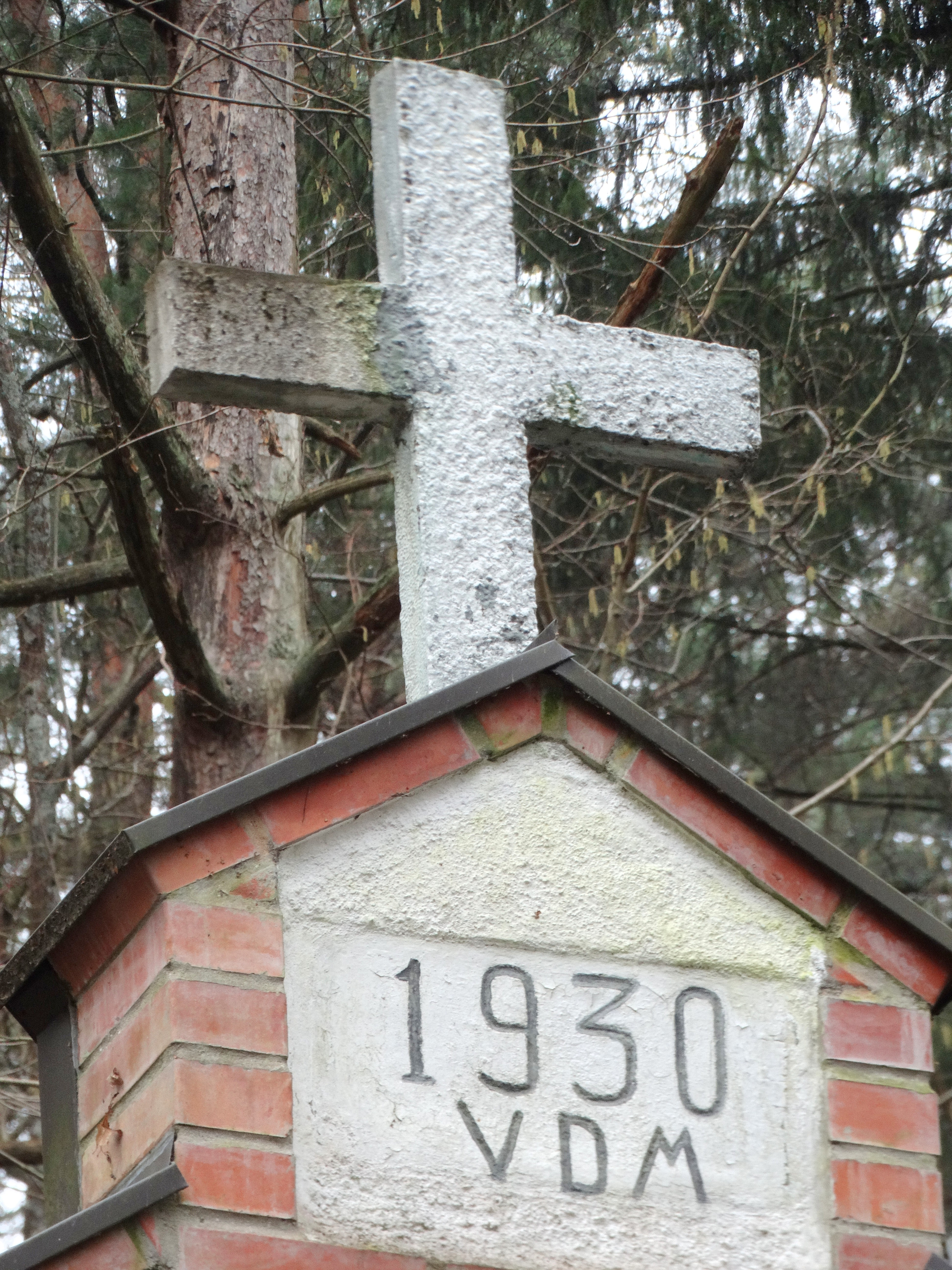 Erškėtynas chapel, Kretinga District, Lithuania